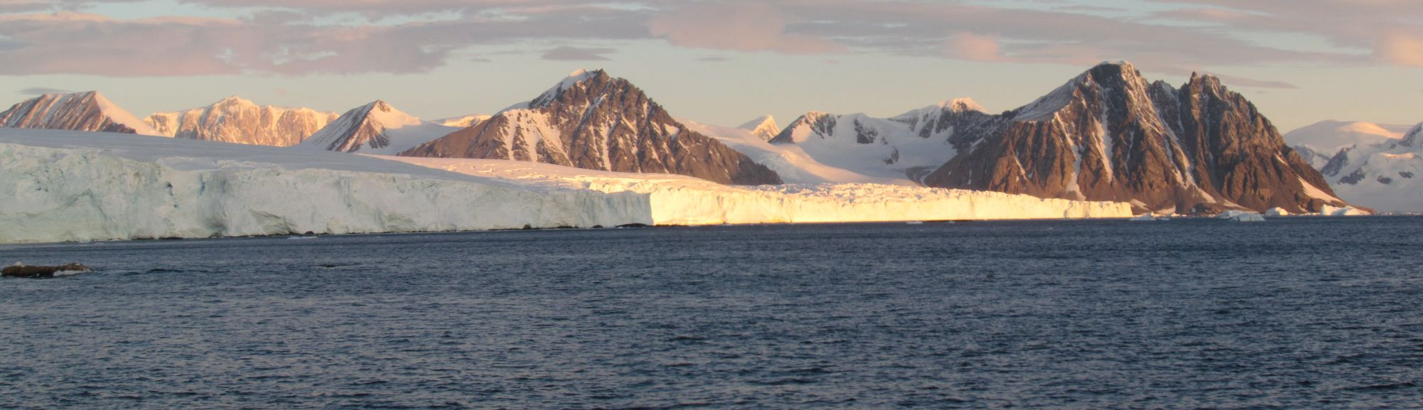 Panoramic view of Uspallata Glacier (Northeast Glacier)